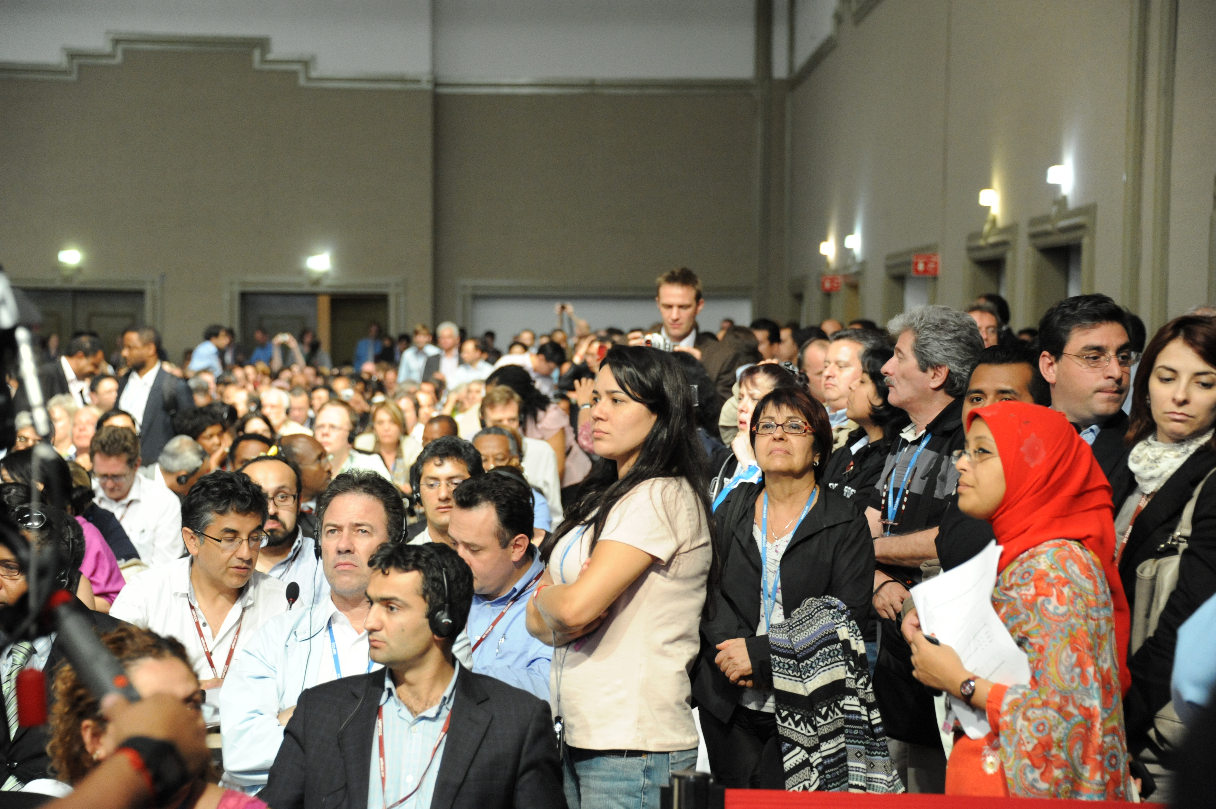 UN Climate Talks 2010. Cancun, Mexico. by United Nations